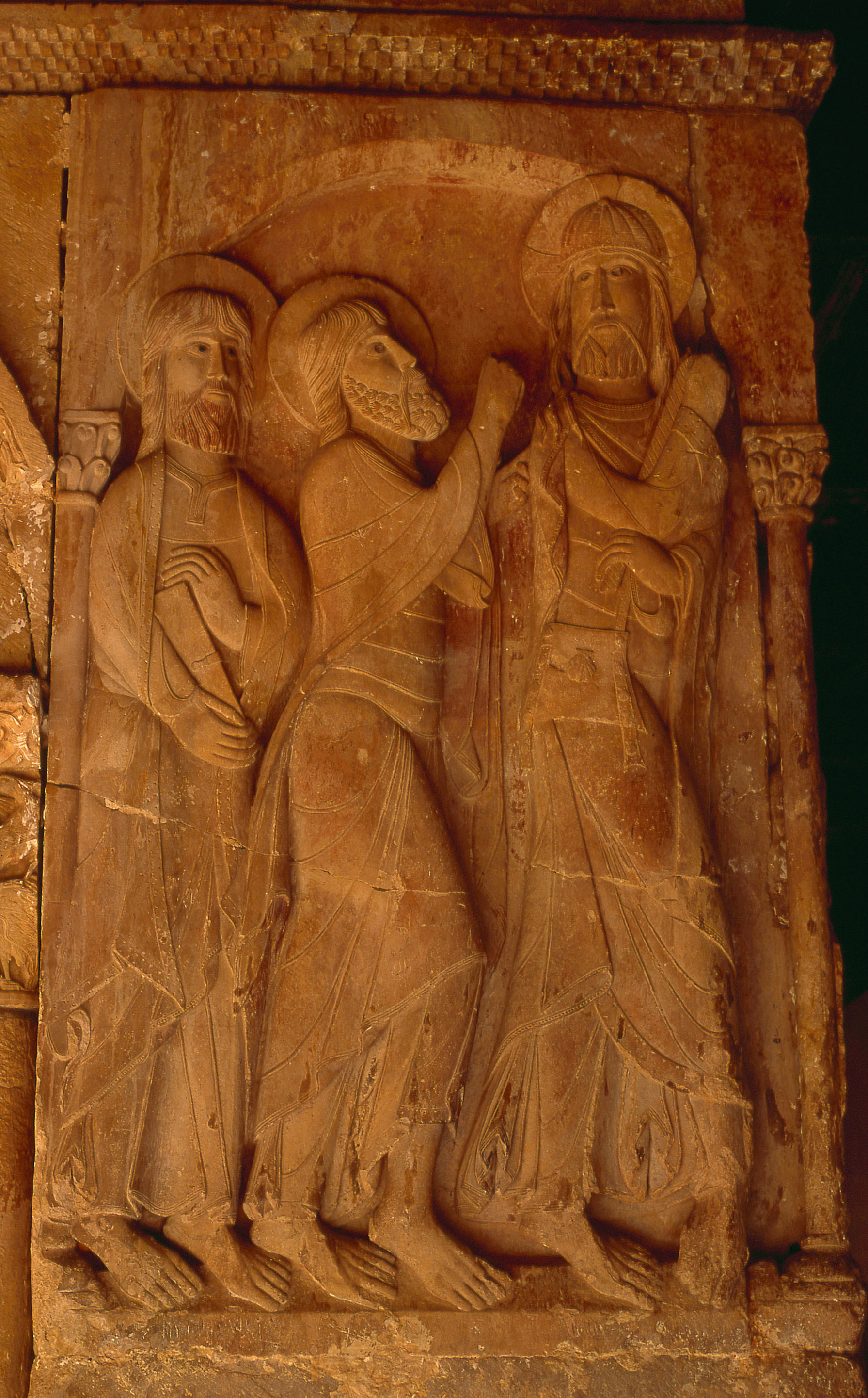 Burgos: Monasterio de Santo Domingo de Silos